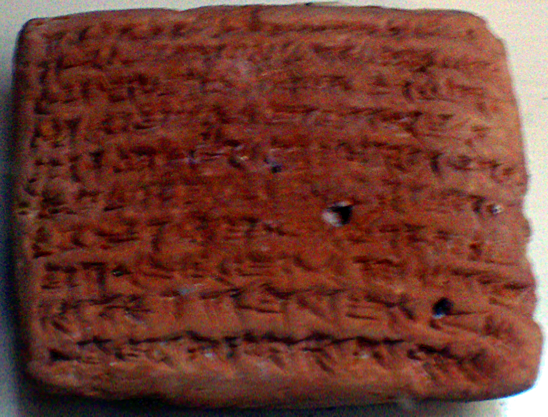 Sumeria is around 2000BC; the date should not say 492BC.